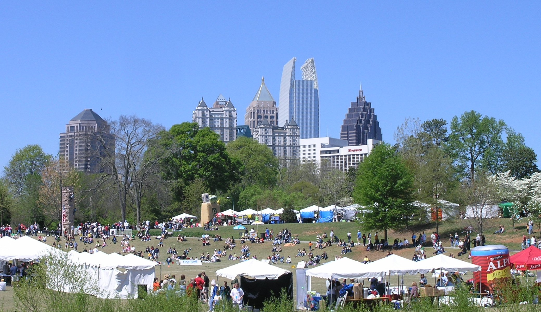 Photo taken in Atlanta area